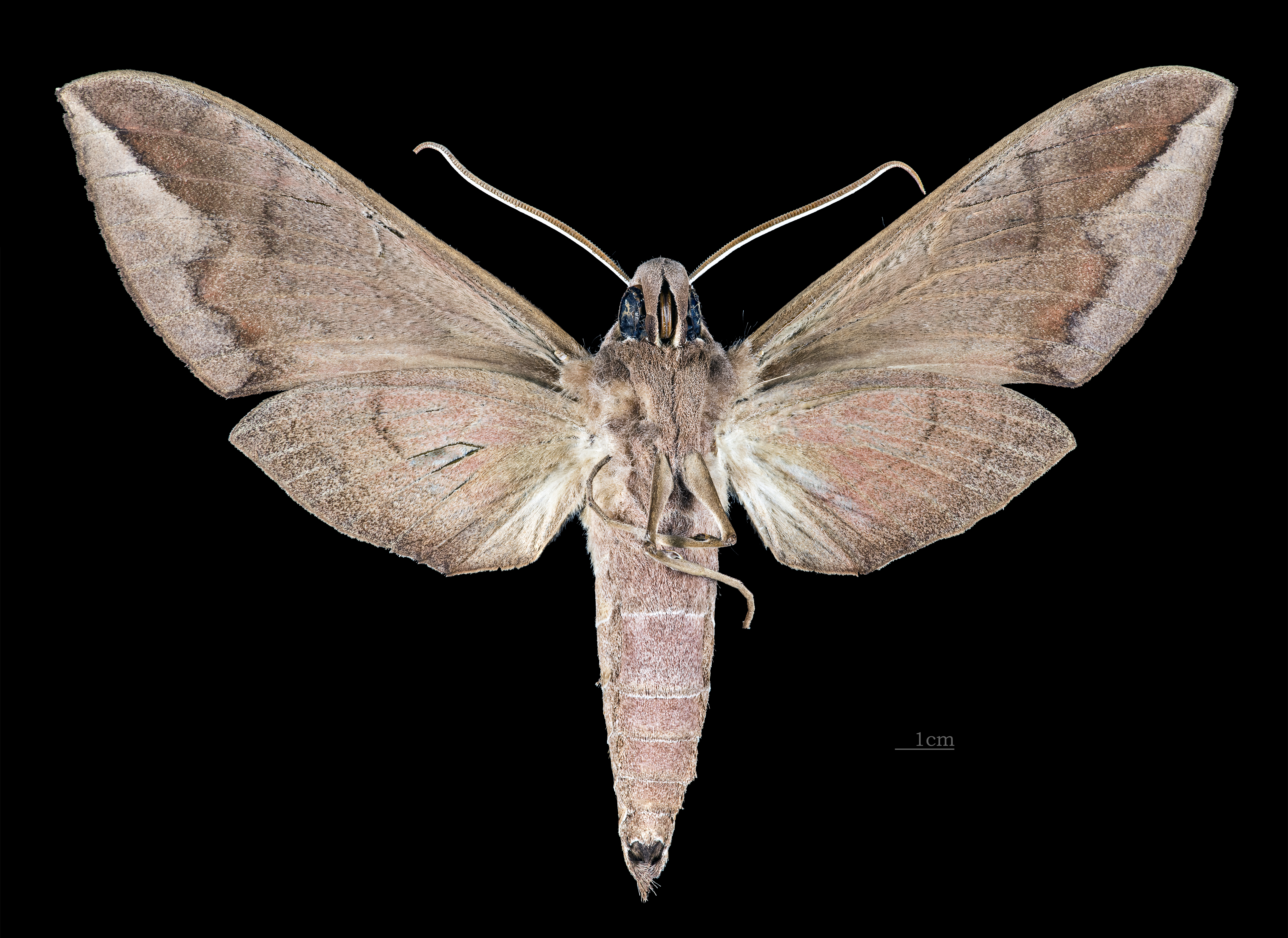 Eumorpha translineatus - △ Ventral side Collection of the Mathematician Laurent Schwartz